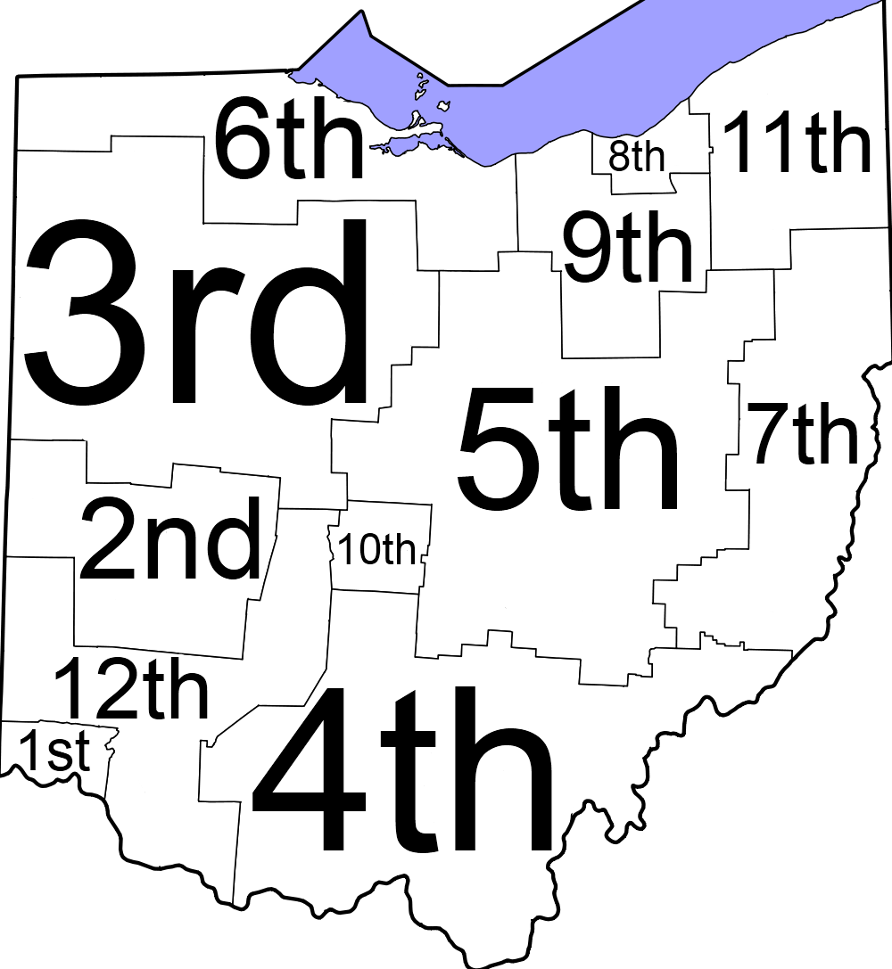 Map of Ohio judicial districts